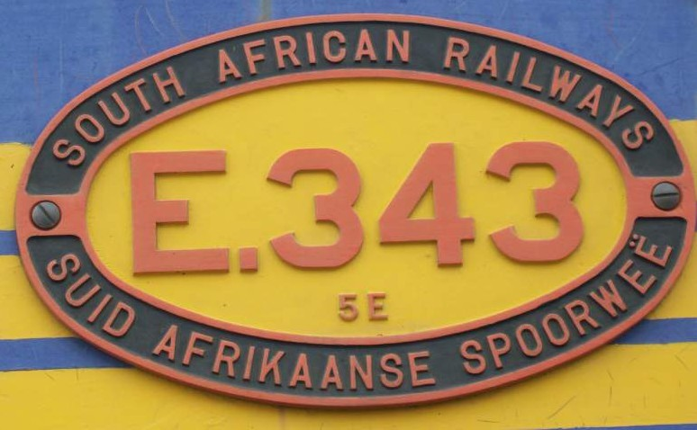 SAR Class 5E Series 2 E343 number plate (Mounted on Driefontein Consolidated Ltd 4, ex SAR Class 5E Series 3 E576) Location: Driefontein GM, Carletonville, Gauteng